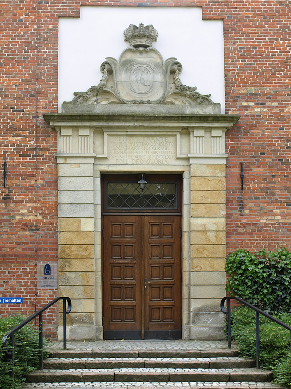 Hohenweststedt (Schleswig-Holstein, Germany), Peter-Paul's Church , photo 2009